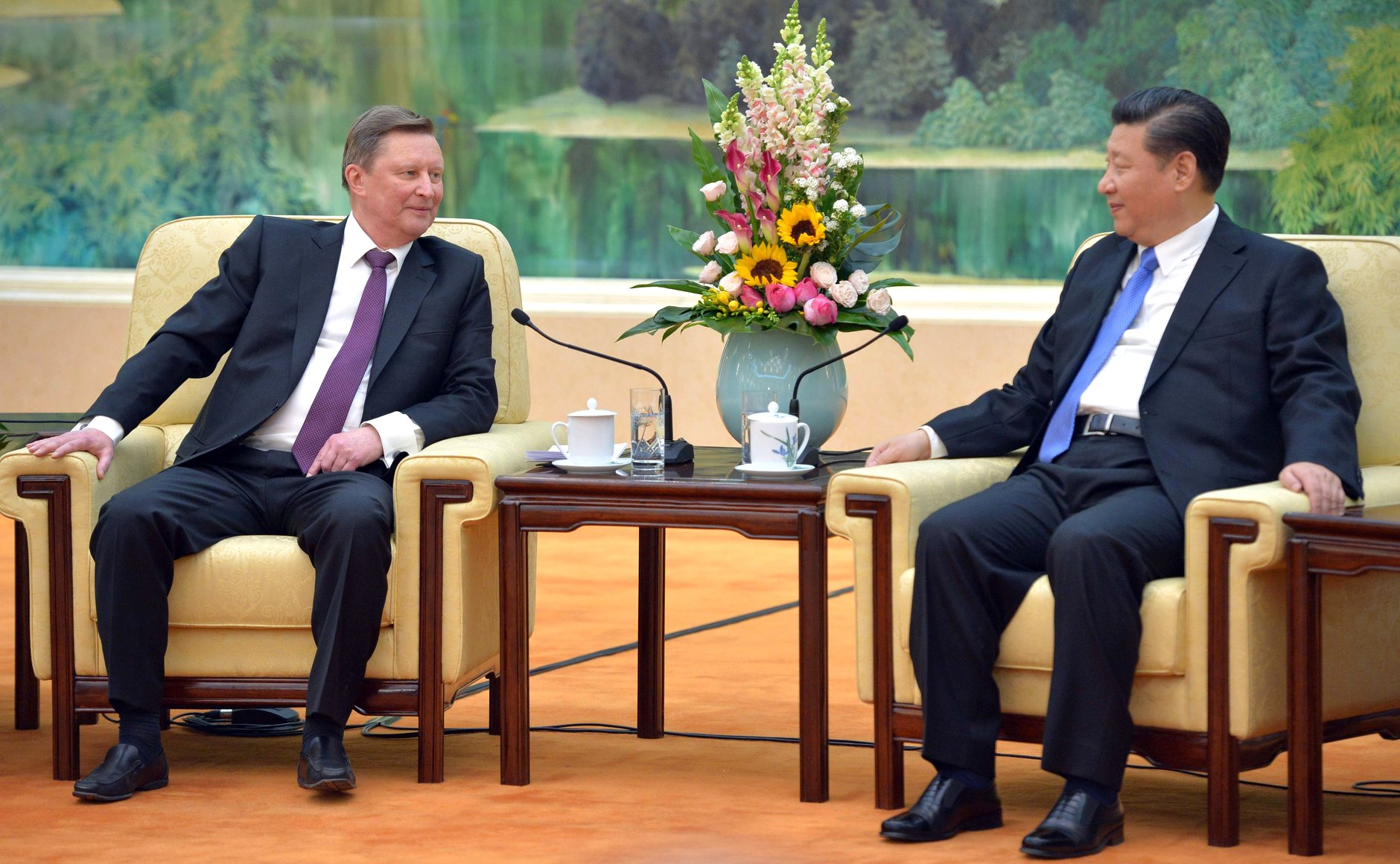 Meeting between Sergei Ivanov and President of China Xi Jinping